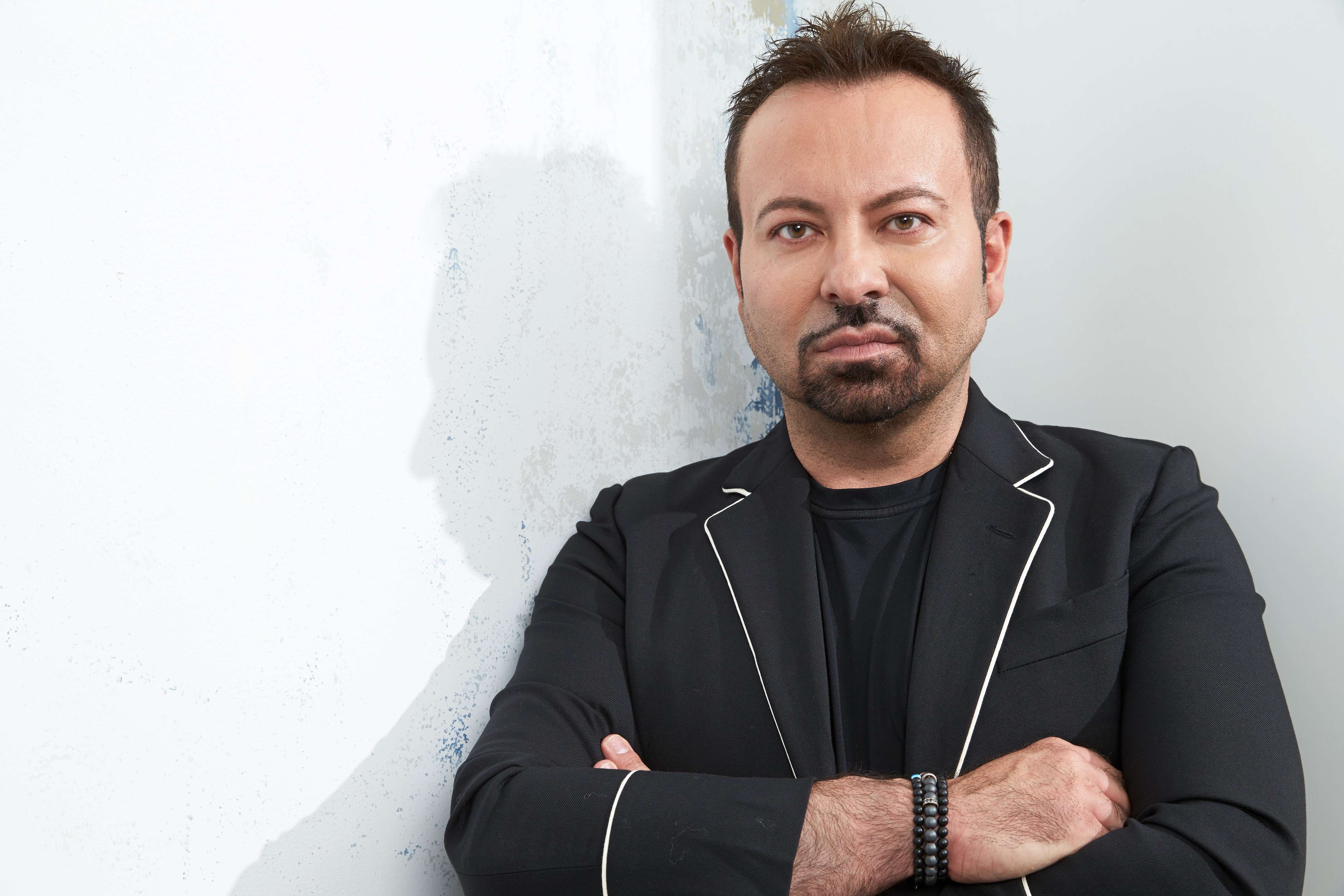 The picture depicts Napoleon Perdis, Australian makeup artist and businessman.